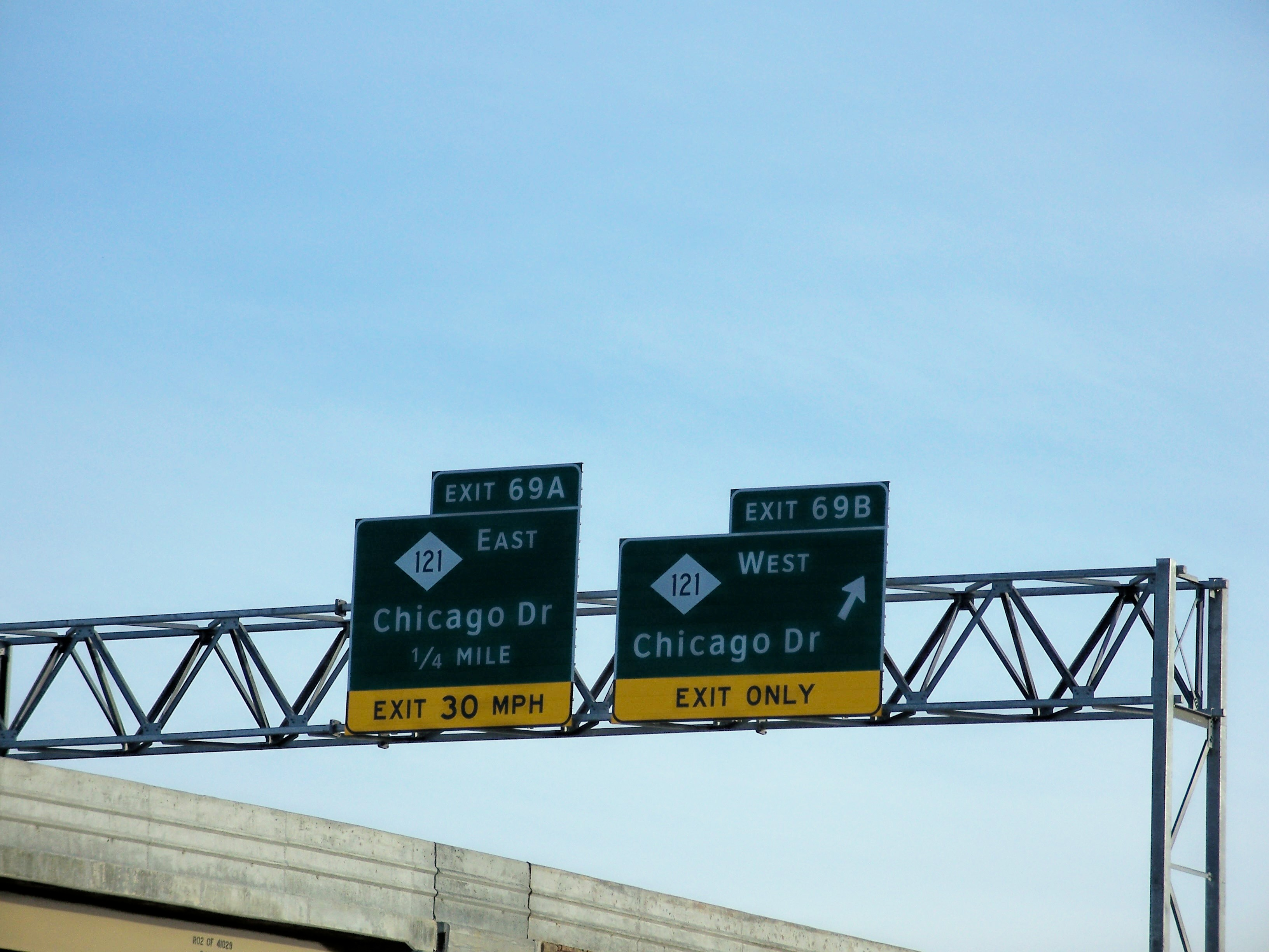 The problem is that M-121 is only supposed to go west from this interchange.